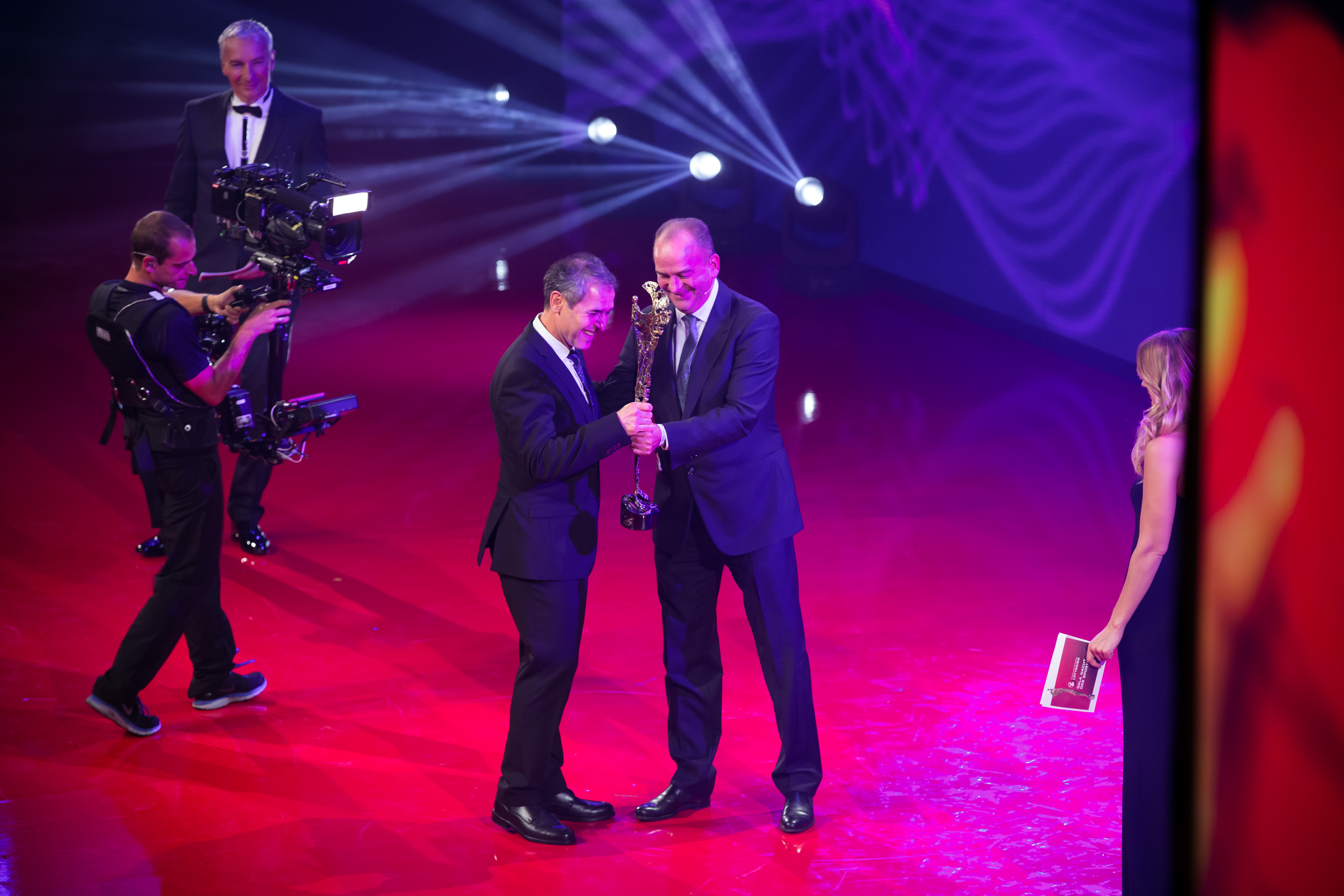 Marcel Koller (l.) and laudator Herbert Prohaska with presenters Mirjam Weichselbraun and Rainer Pariasek at the gala for the Austrian Sportspersonalities of the Year 2015 (Austria Center Vienna).